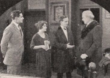 Still from the American drama film The Hole in the Wall (1921), on page 64 of the December 17, 1921 Exhibitors Herald.